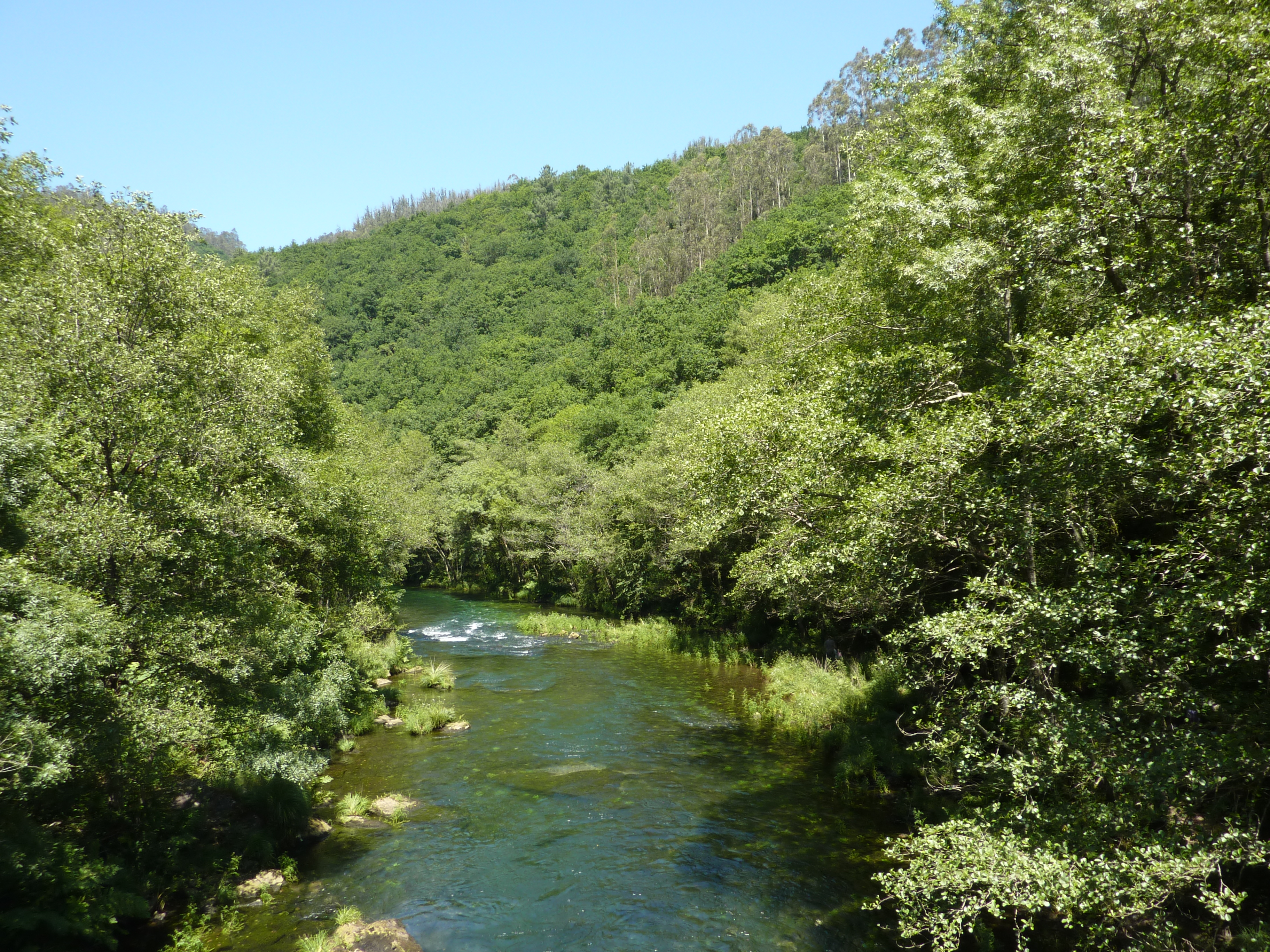 Eume river, Galicia.